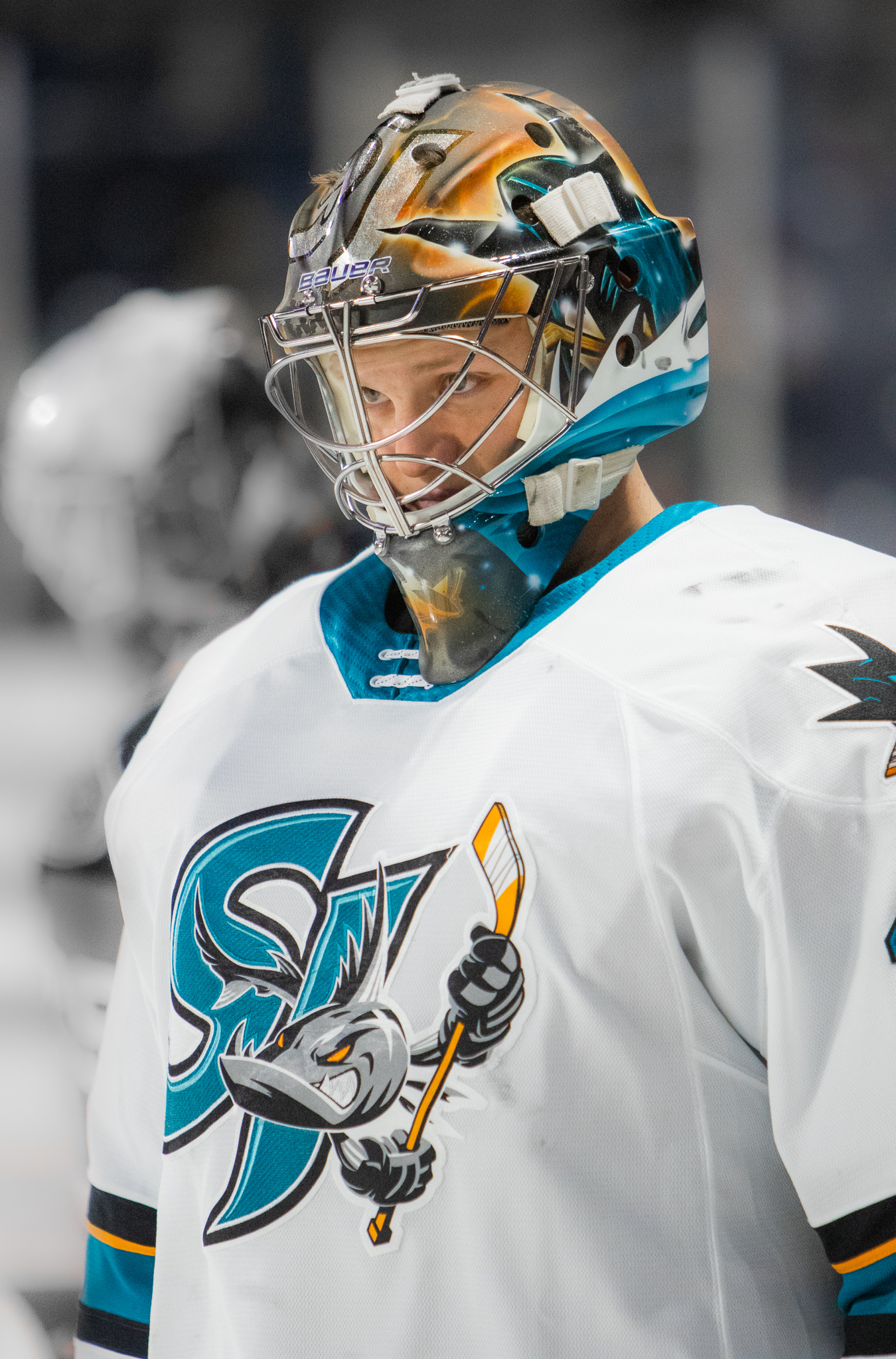 Photo By: Kelly Shea